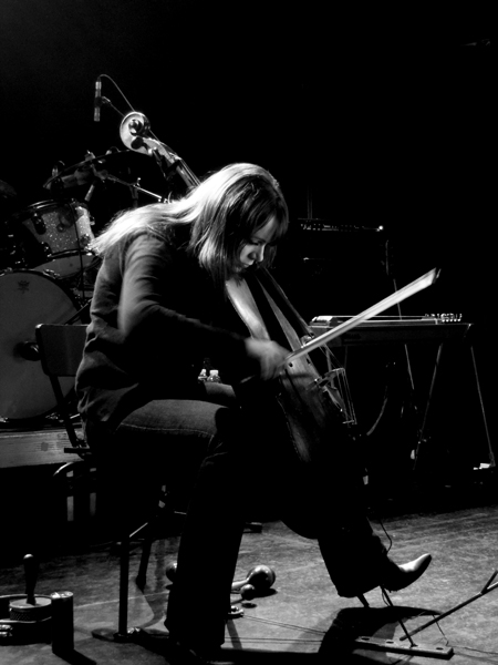 Isobel Campbell performing, 2008-03-12